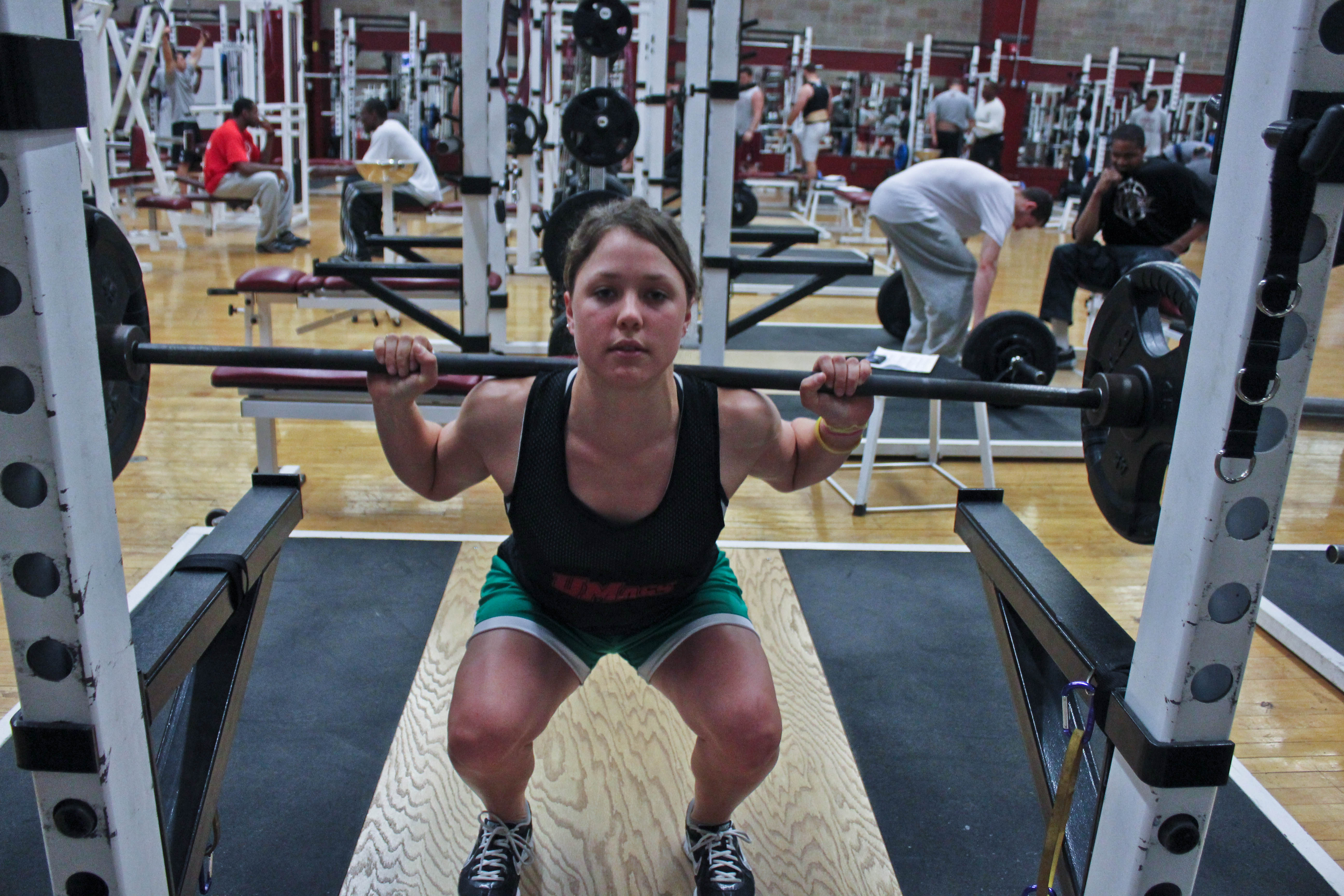 Squat lifting